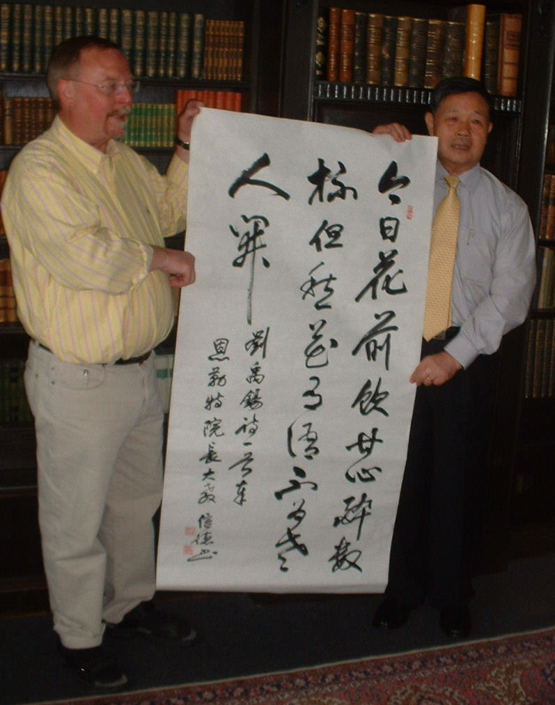 poem of Liu Yuxi by the Chinese calligrapher Sun Xinde